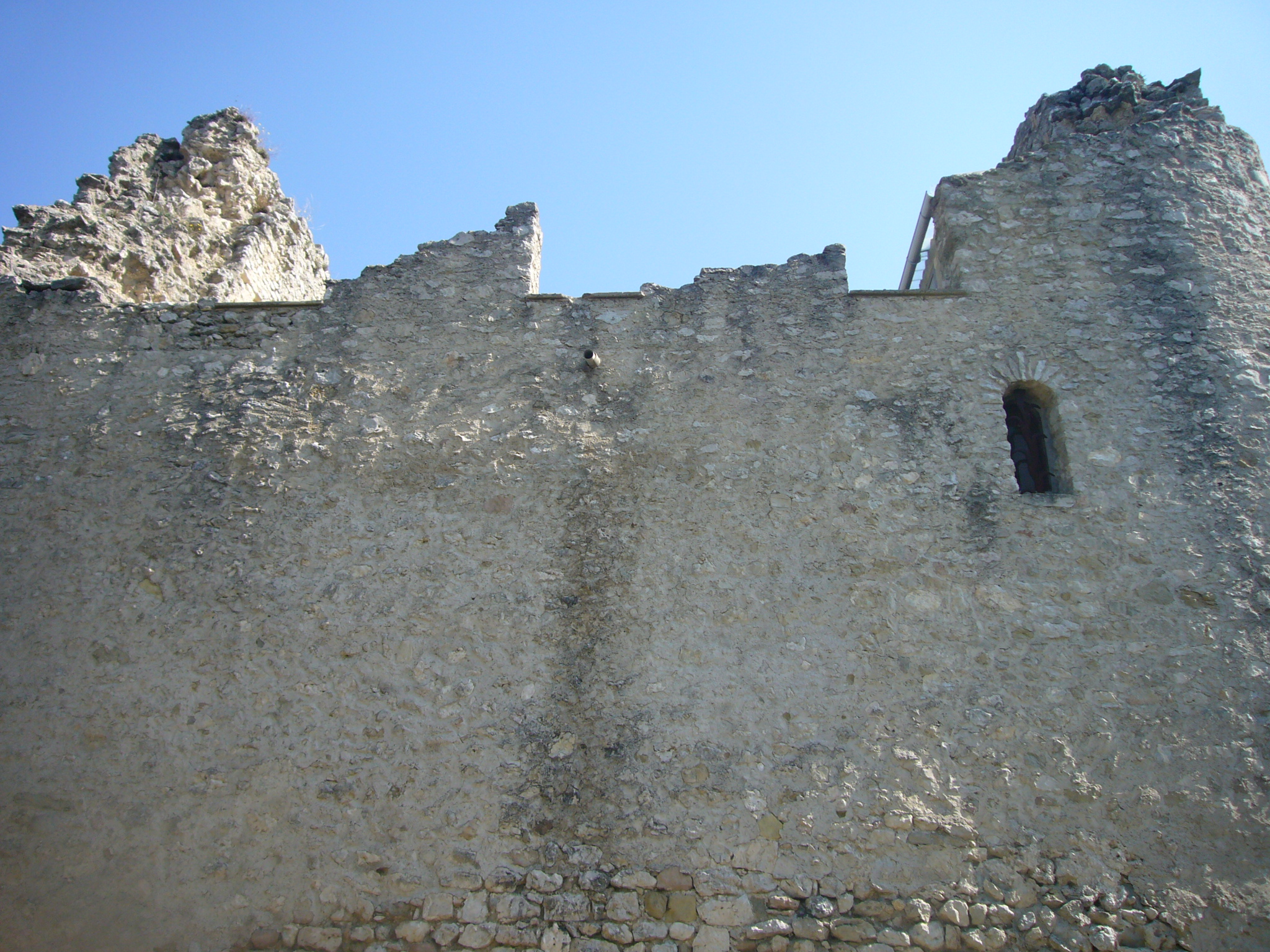 Castell de la Tossa de Montbui, rear view